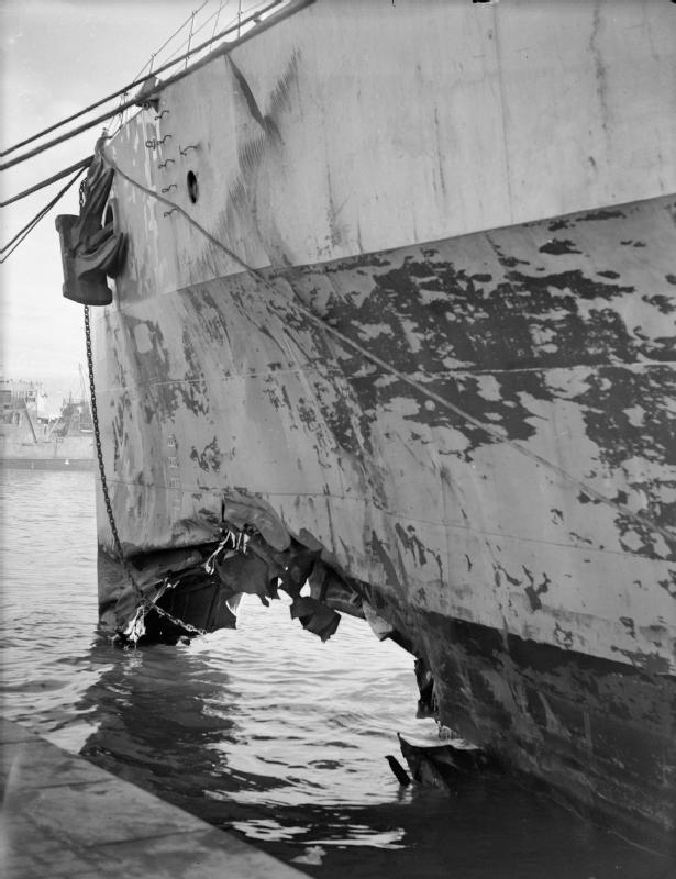 The damaged bows of HMS ARGONAUT as the ship lies docked. Despite heavy damage after she had been torpedoed in the Mediterranean the British cruiser lived on. She managed to get home where she was repaired before serving in the Far East.